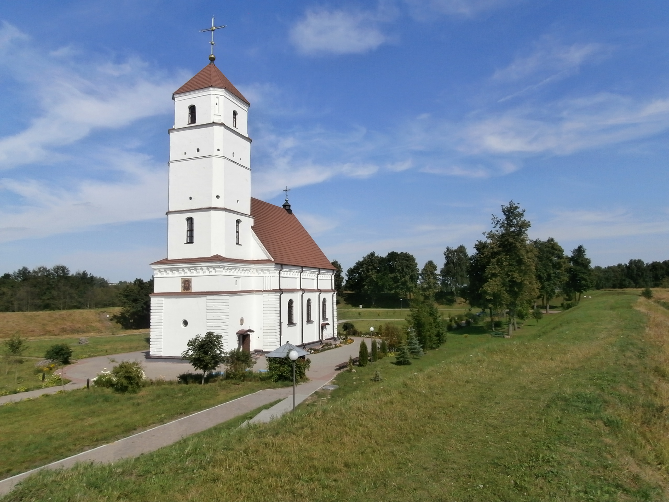 Church of the Saviour's Transfiguration in Zaslavl 25 July 2015